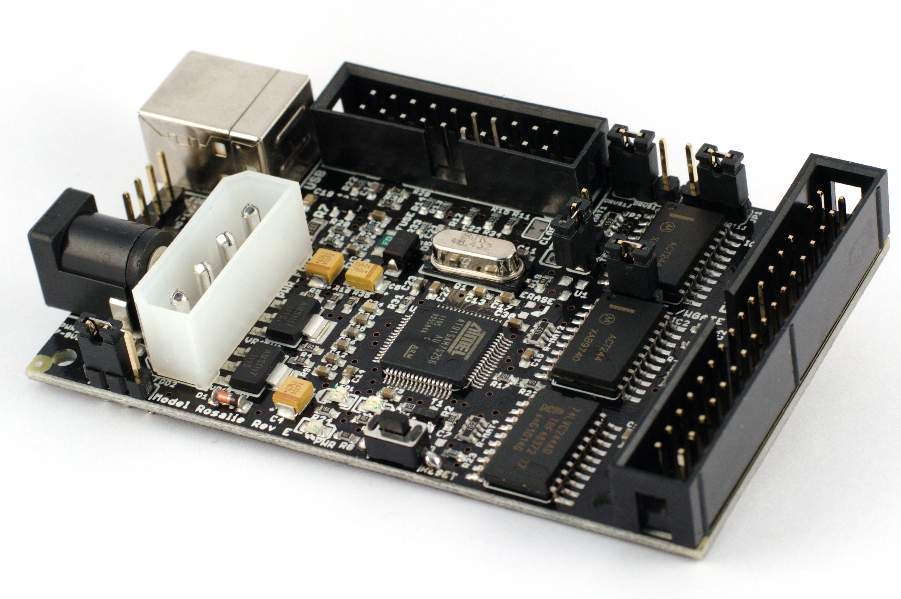 KryoFlux floppy drive controller, purchased from the Software Preservation Society (SPS).